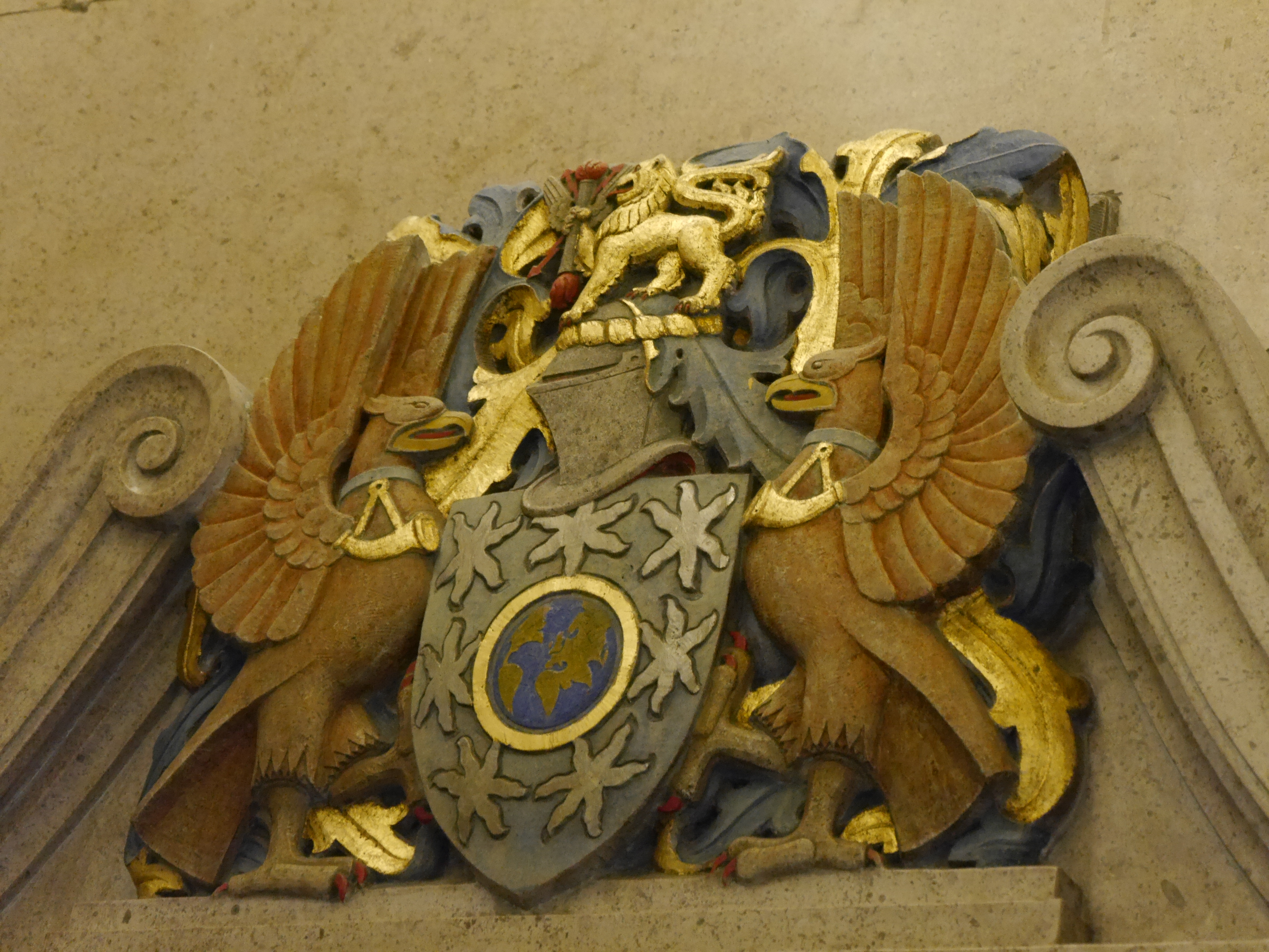 BBC Speakerthon, Broadcasting House, London, 18 Jan 2014